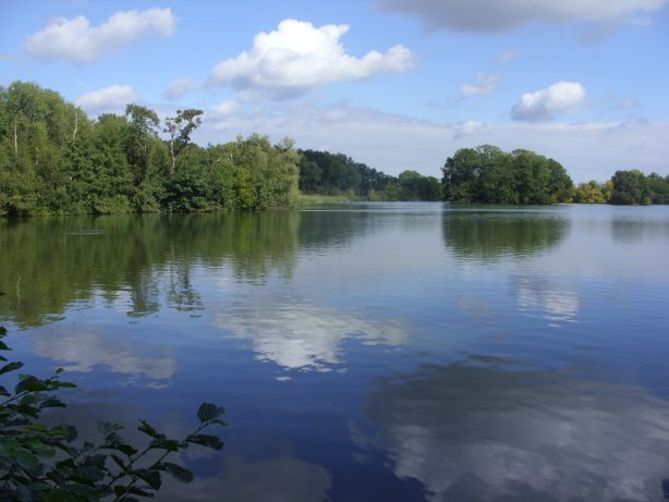 Nature reserve Riddagshausen